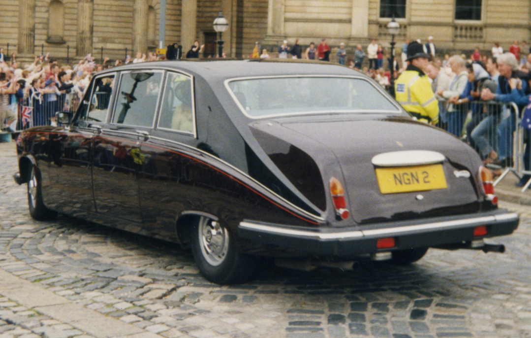 The Queen and the Duke of Edinburgh visit Liverpool. Photo originally taken on 35mm film camera sometime in the late 1990s, near the Walker Art Gallery on William Brown Street. Digitally scanned on 15th July 2010.